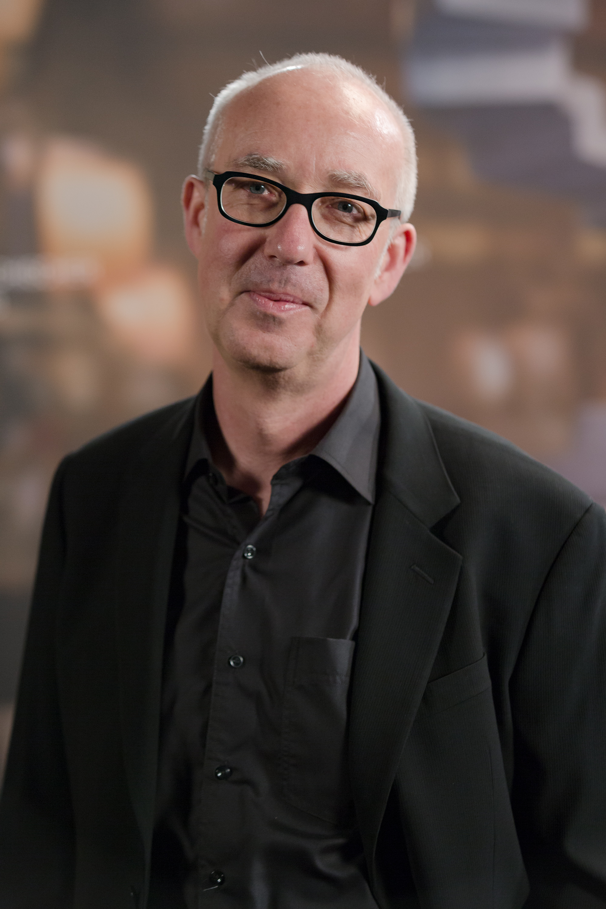 Peter Wirthensohn, producer of Thank You for Bombing, at the Austrian Film Awards 2017 (Rathaus, Vienna,Austria).